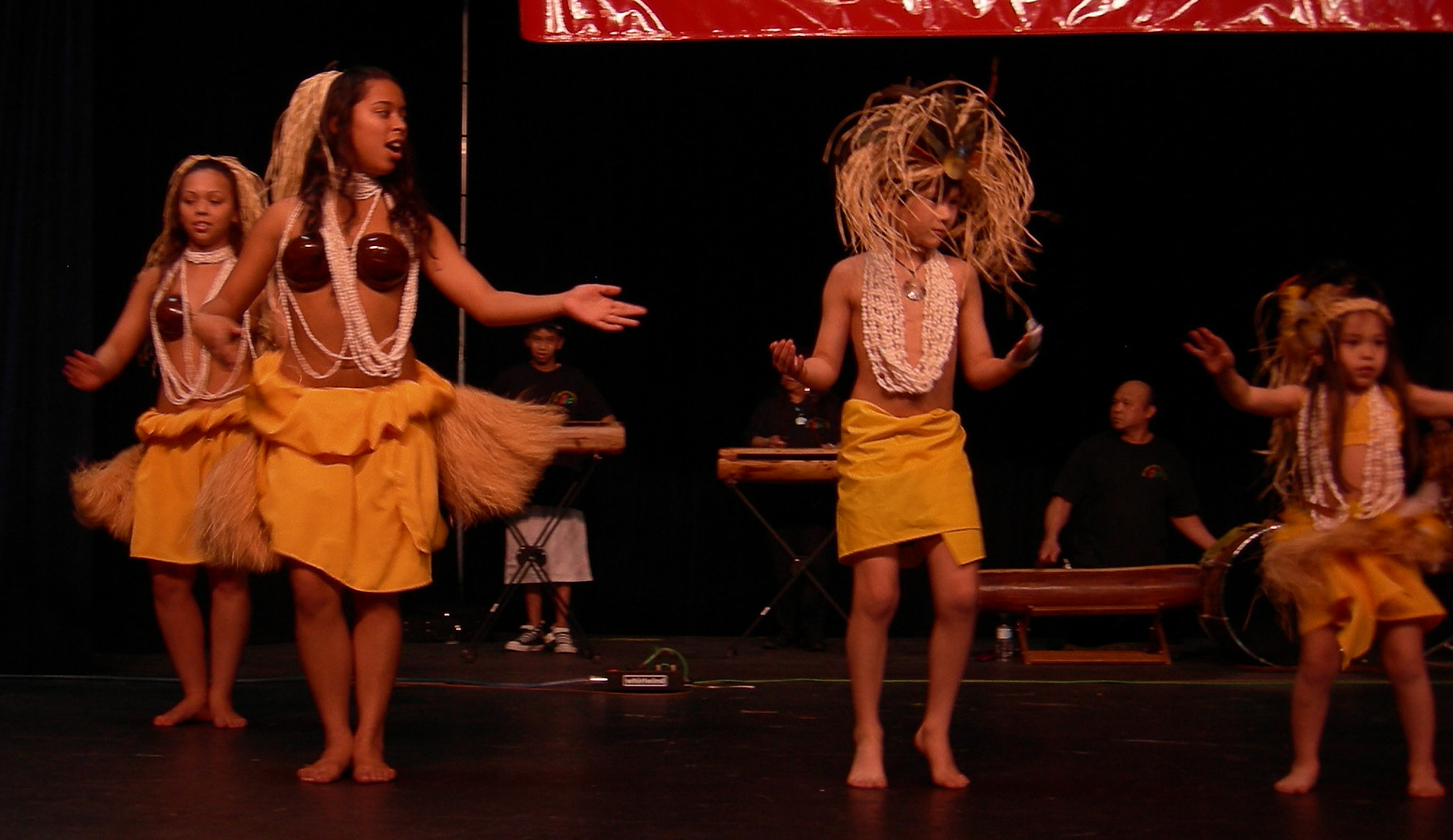 Dancers of hula hālau Ke Liko A`e O Lei Lehua perform at Center House, Seattle Center, as part of Festál's API (Asian Pacific Islander) Heritage Month Festival. The pictures of this event have generally undergone slight enhancement (sharpening, color adjustments) with Picture Publisher.